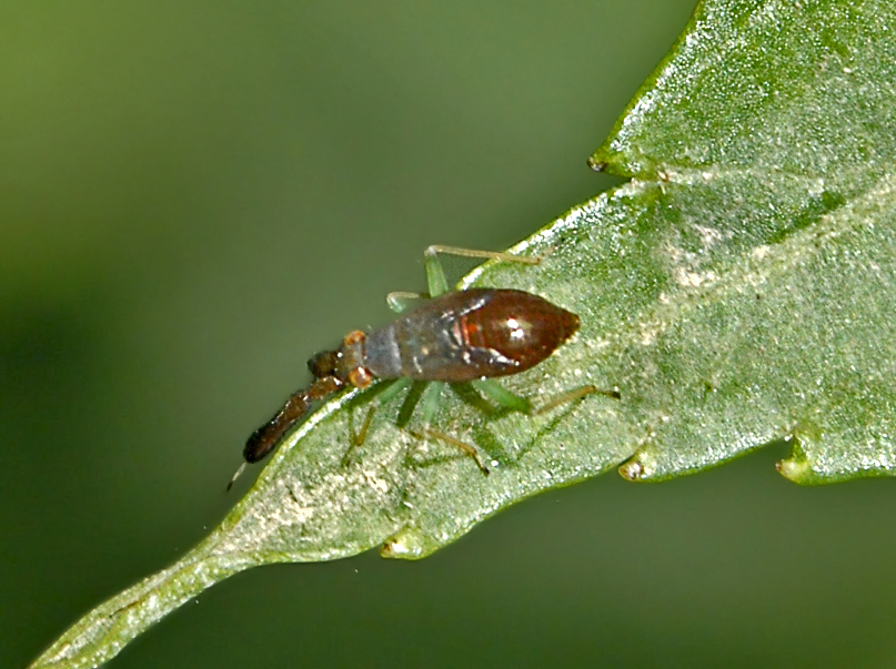 Heterotoma cf. planicornis, nymph. Piani di Praglia, Genova, Italy